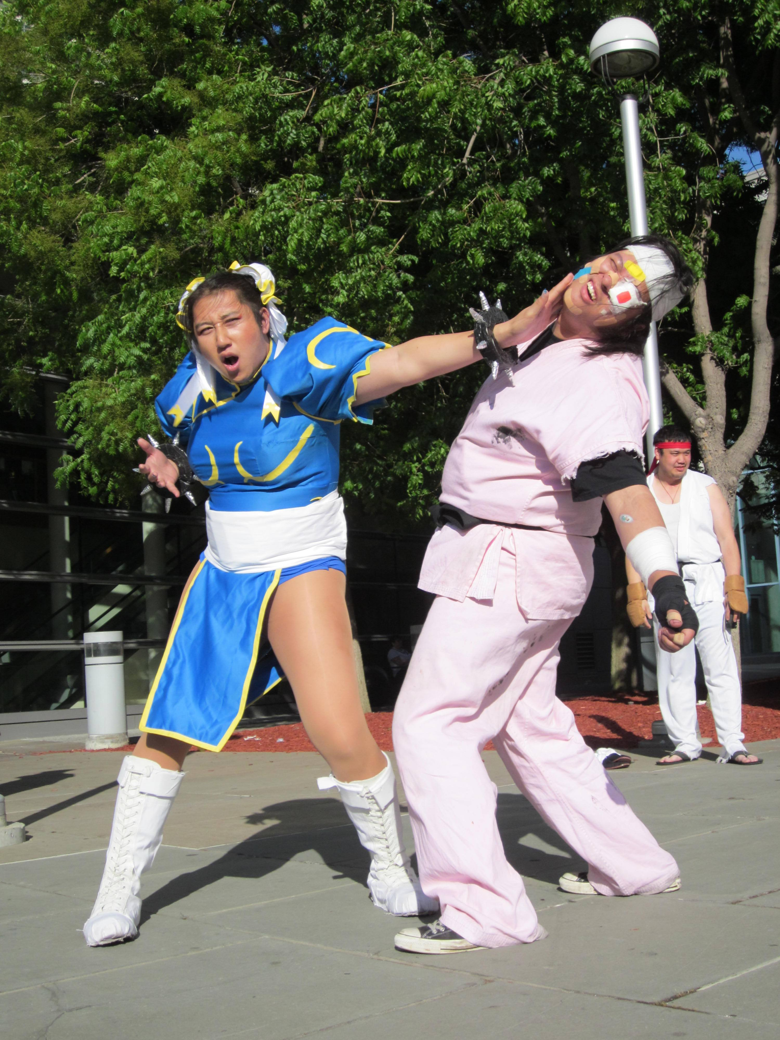 Cosplayers portraying Chun-Li and Dan from Street Fighter at FanimeCon 2010 in San Jose, California.